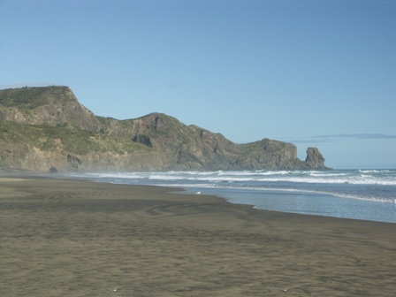 Bethels Beach - photo taken and uploaded by Paul Moss, Photographer, Artist, Paul Moss Photographer Artist NZ